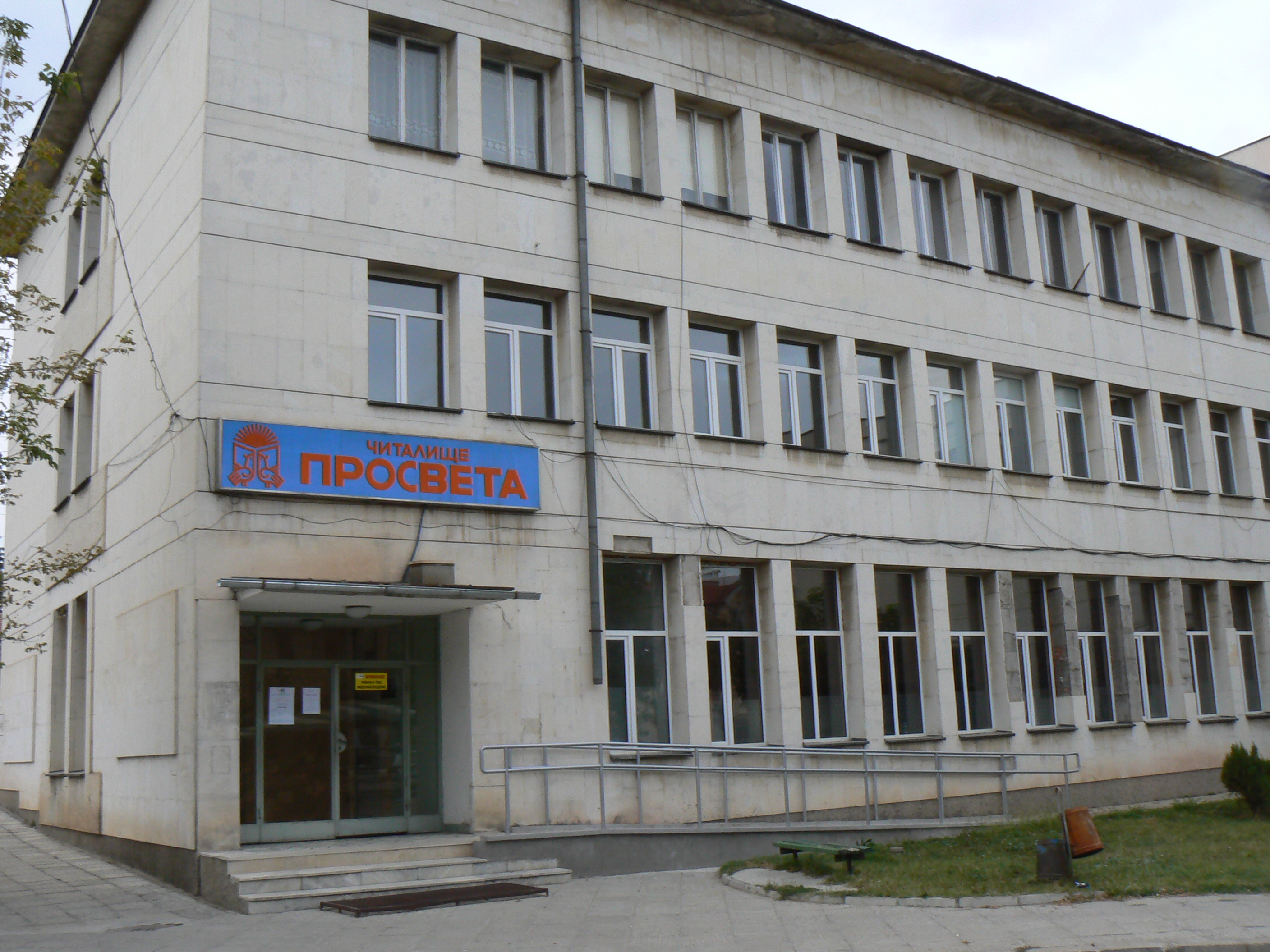 "Prosveta" chitalishte (cultural community centre) in Mezdra, Bulgaria